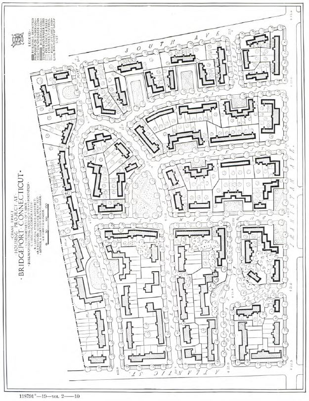 The original plans for Seaside Village included 377 units. Not all were built as construction began in October 1918 and the war ended a month later. Work continued with the construction for a while,but the area closest to Atlantic Street was left as a large field.